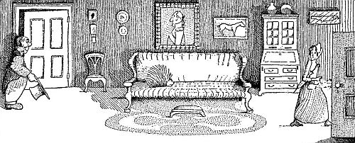 pg 25 of The Story of Doctor Dolittle